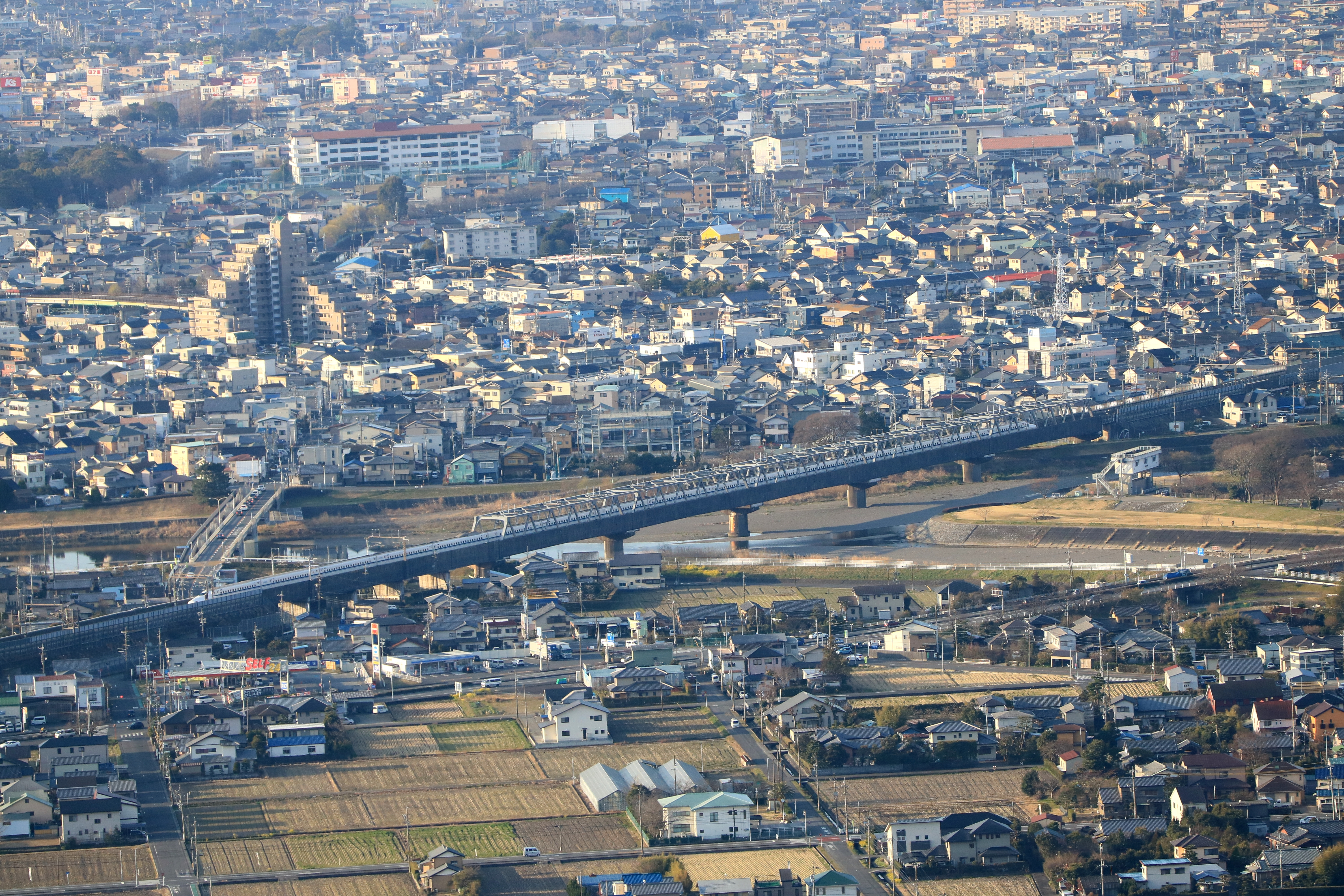 Seto River and Asahina River seen from Mount Tskakusa in Yaizu, Shizuoka prefecture, Japan.